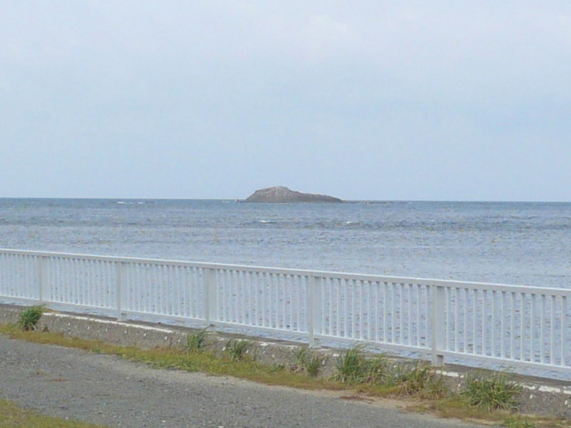 Bentenjima Island, photograph taken from Cape Soya.